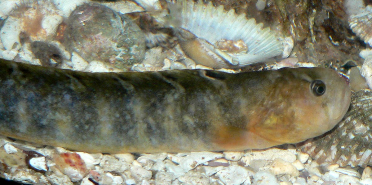 Photo of Pholis laeta at the Birch Aquarium in San Diego